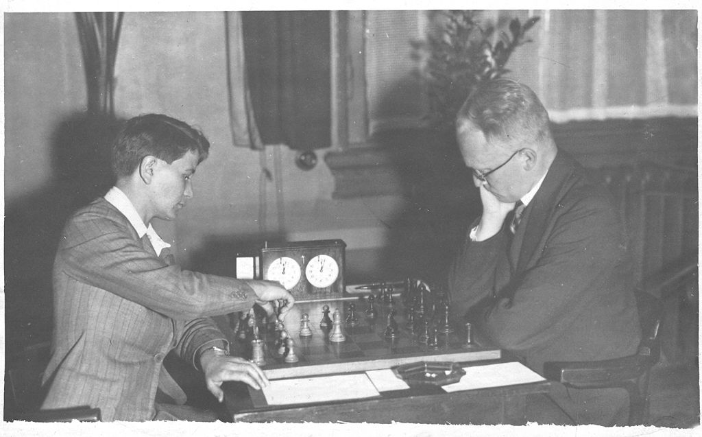 Sonja Graf plays at the Utrecht Chess Club against the local champion (Meijlink). Utrecht, Netherlands.